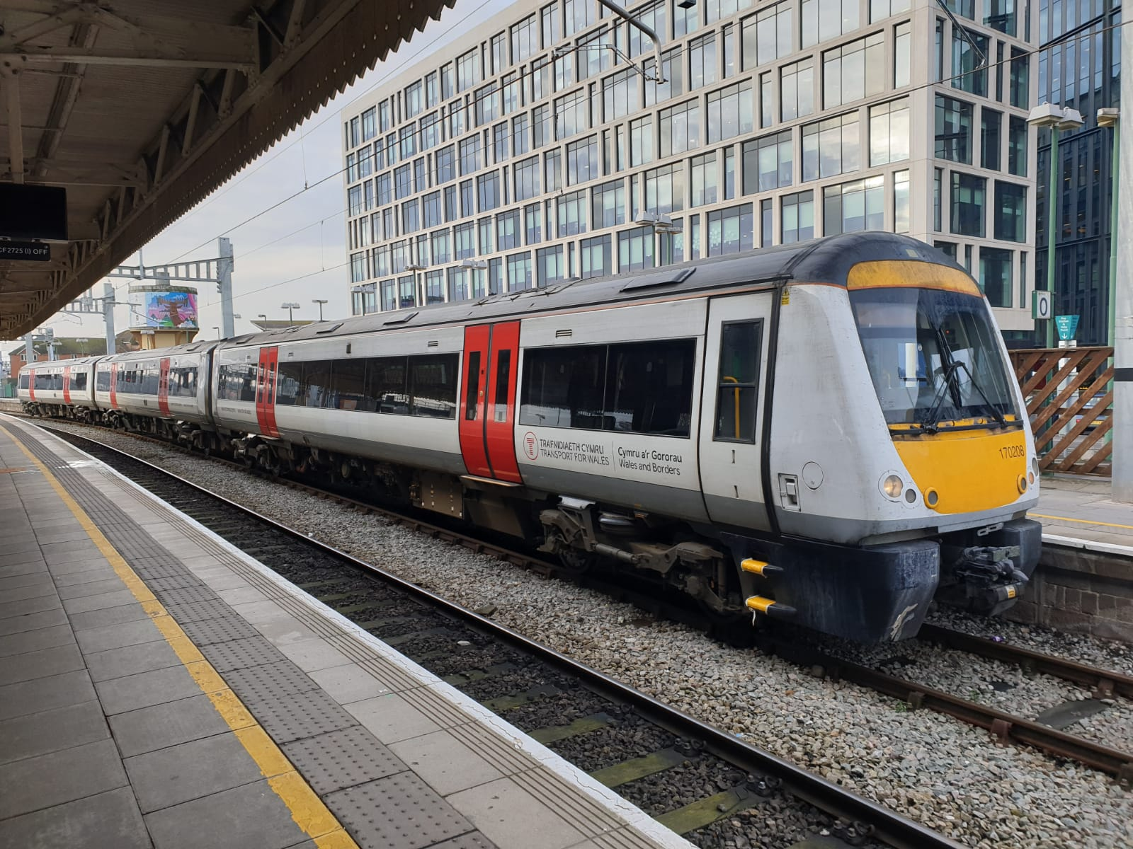 170208, a Transport for Wales Rail Services Class 170 Turbostar Diesel multiple unit, is at Platform 0 of Cardiff Central on 16 December 2019. It is about to work the 1434 Ebbw Vale service.